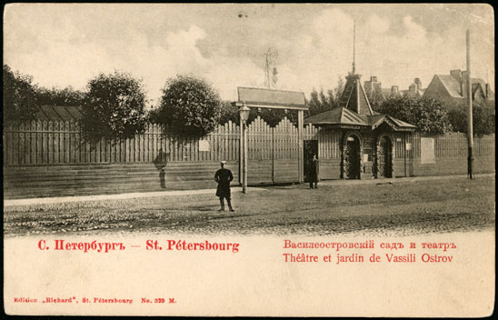 Saint Petersburg (Russia), Vasilievsky Island.